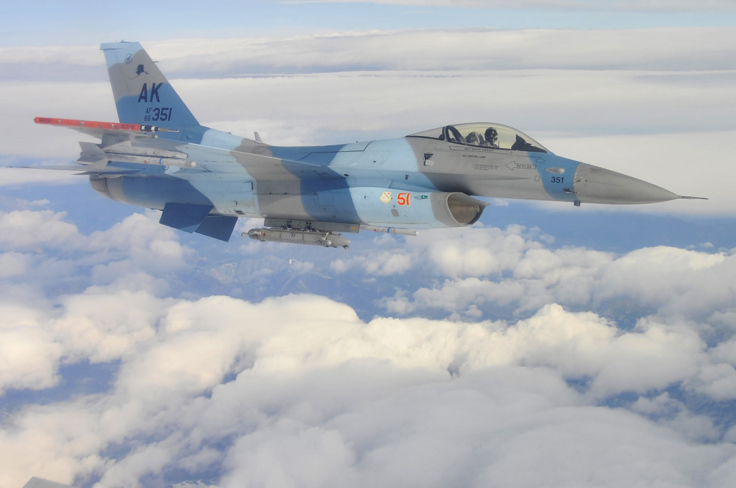 Maj. Jeff Simmons flies over the Joint Pacific Alaskan Range Complex in an F-16 Aggressor during Red Flag-Alaska 09-3 July 28, 2009, Eielson Air Force Base. RF-A is a Pacific Air Forces-directed field training exercise for U.S. Forces to fly under simulated air combat conditions. Major Simmons is a pilot assigned to the 18th Aggressor Squadron. (U.S. Air Force photo by Staff Sgt. Christopher Boitz)